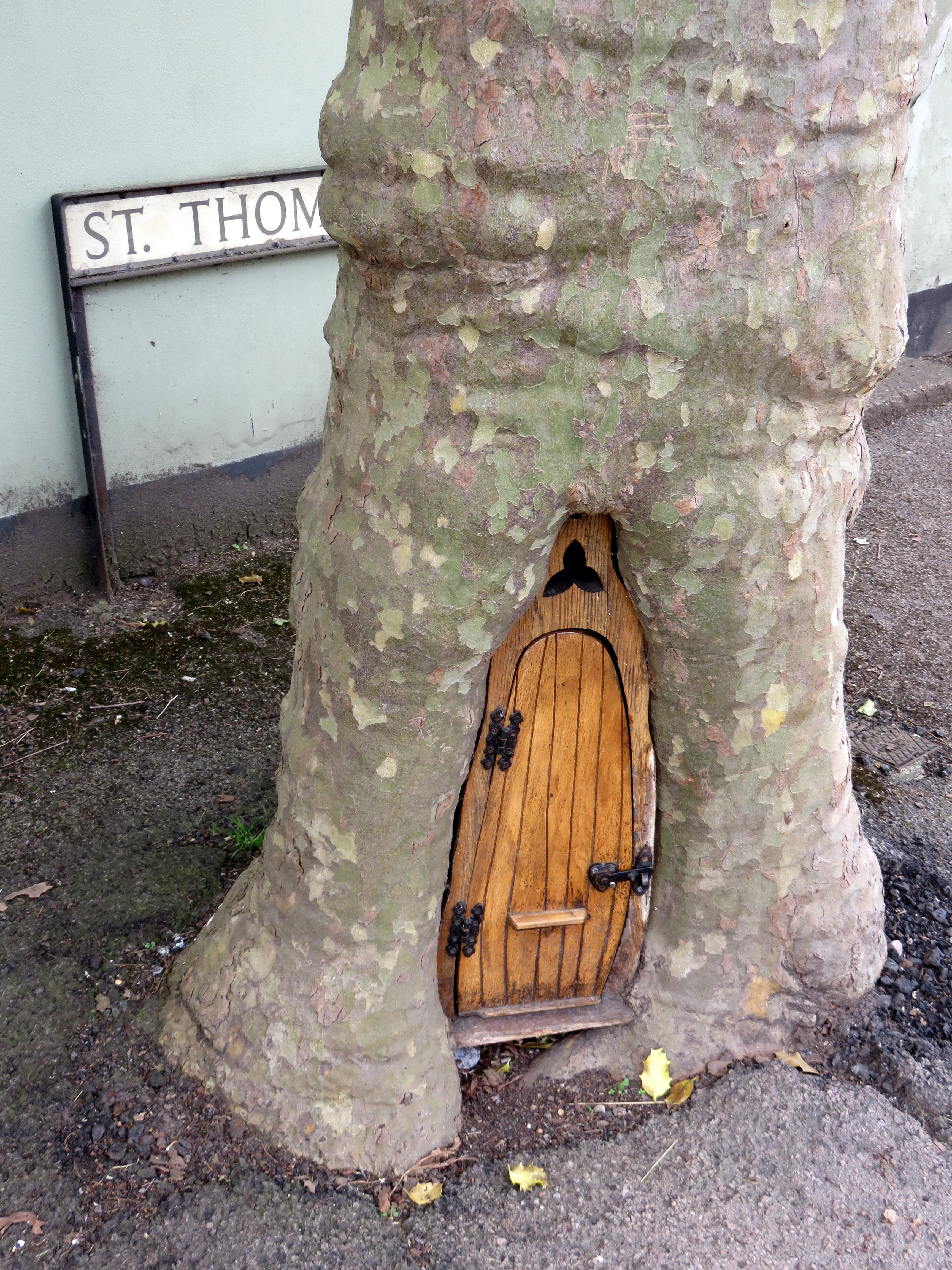 Fairy door in the base of a tree at St Thomas's Square, Monmouth.